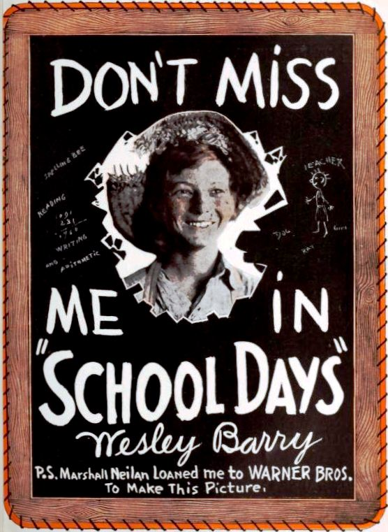 Advertisement for the American comedy film School Days (1921) with Wesley Barry, from the insert after page 26 of the November 19, 1921 Exhibitors Herald.